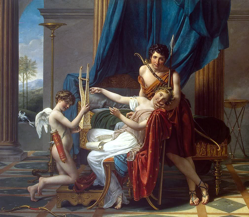 Sapho, Phaon et l'Amour